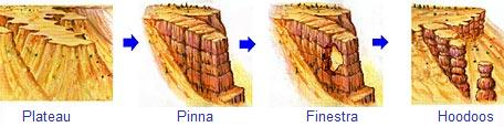 Hoodoos Formational Process